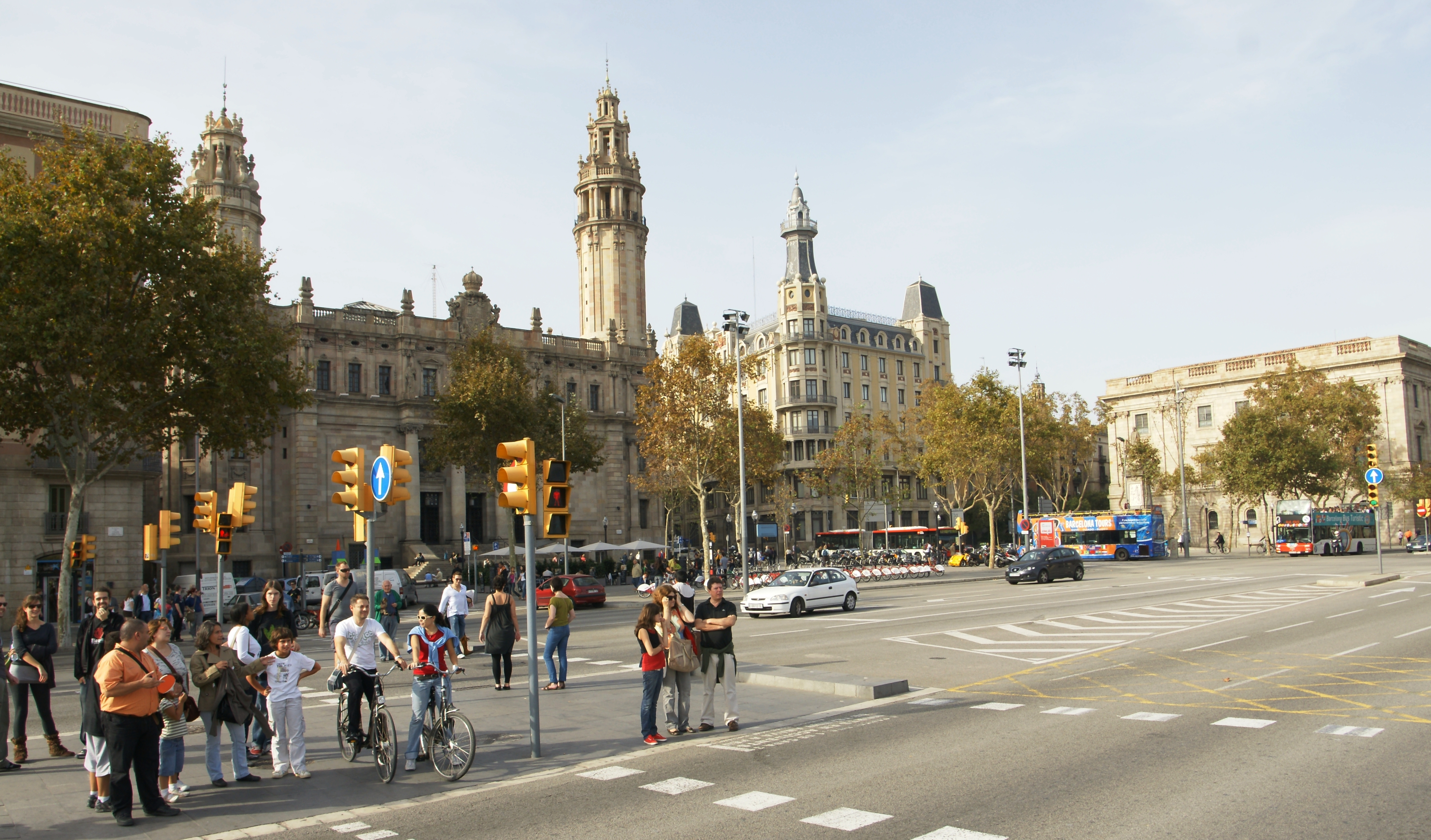 Post office at Passeig de Colom (Jaume Torres i Grau et Josep Goday, 1929)